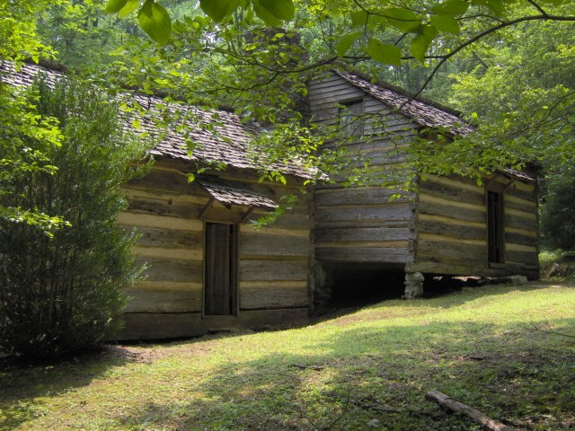 The Smoky Mountain Hiking Club Cabin near Porters Flat in Greenbrier, located in the Great Smoky Mountains National Park in East Tennessee. The SMHC built the cabin in 1934 using logs from Whaley cabins that had fallen down and the chimney fall of the Messer Cabin. The cabin became park property in 1981.